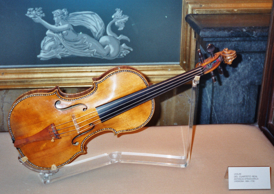 The image of the Spanish II Stradivarius (1687-1689) on exhibit at Palacio Real de Madrid.